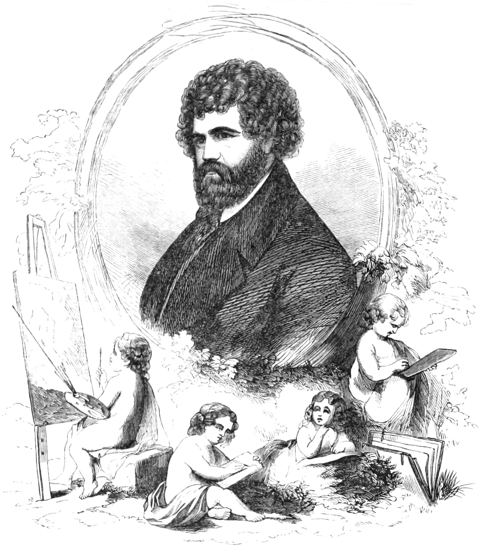 Portrait of Joseph Alexander Ames in 1859, engraved by Samuel Smith Kilburn from a photograph